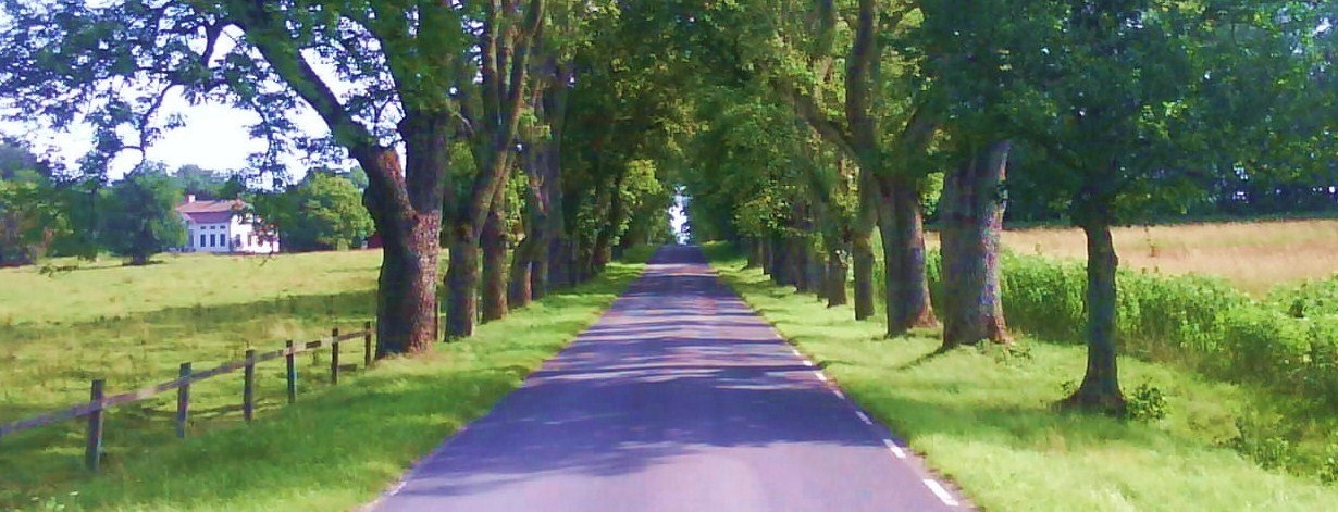 The Hömb Estate, Västra Götaland, Sweden.